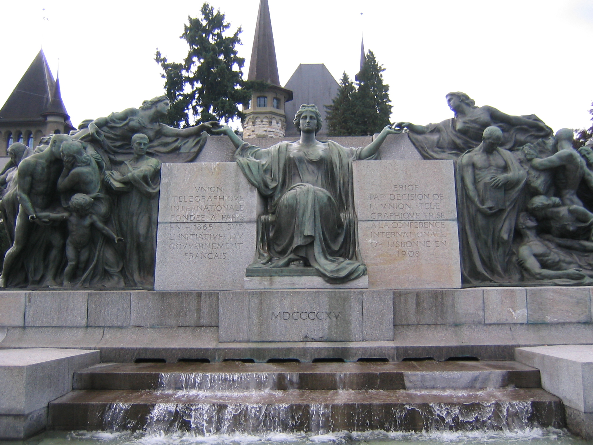 International Telecommunication Union monument, Bern, Switzerland. The text reads: "Union Télégraphique Internationale fondée à Paris en 1865 sur l'initiative du gouvernement français. Érigé par décision de l'Union Télégraphique prise à la conférence internationale de Lisbonne en 1908. – MDCCCCXV" (In